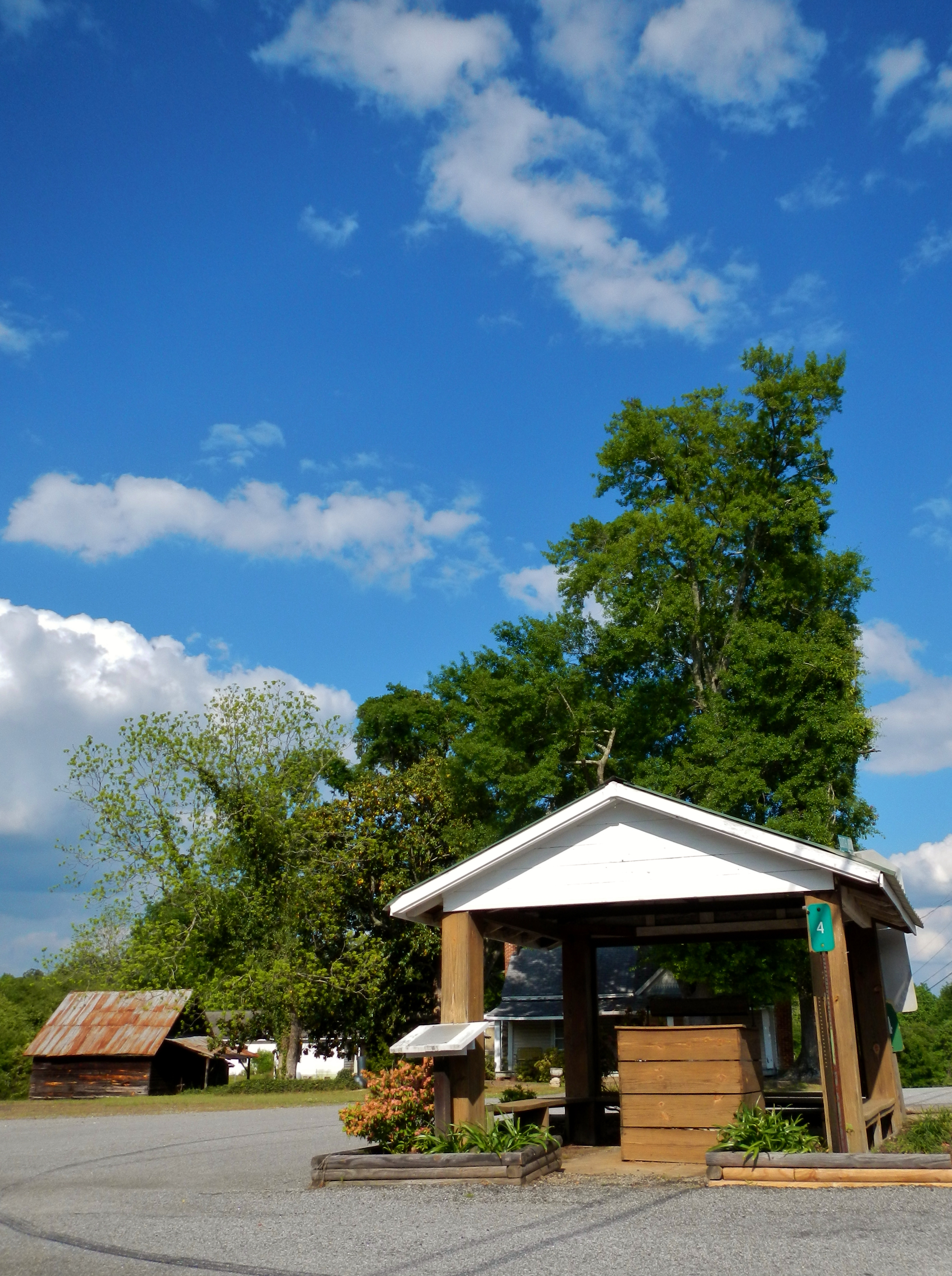 This is a photograph of Centralhatchee, Georgia.